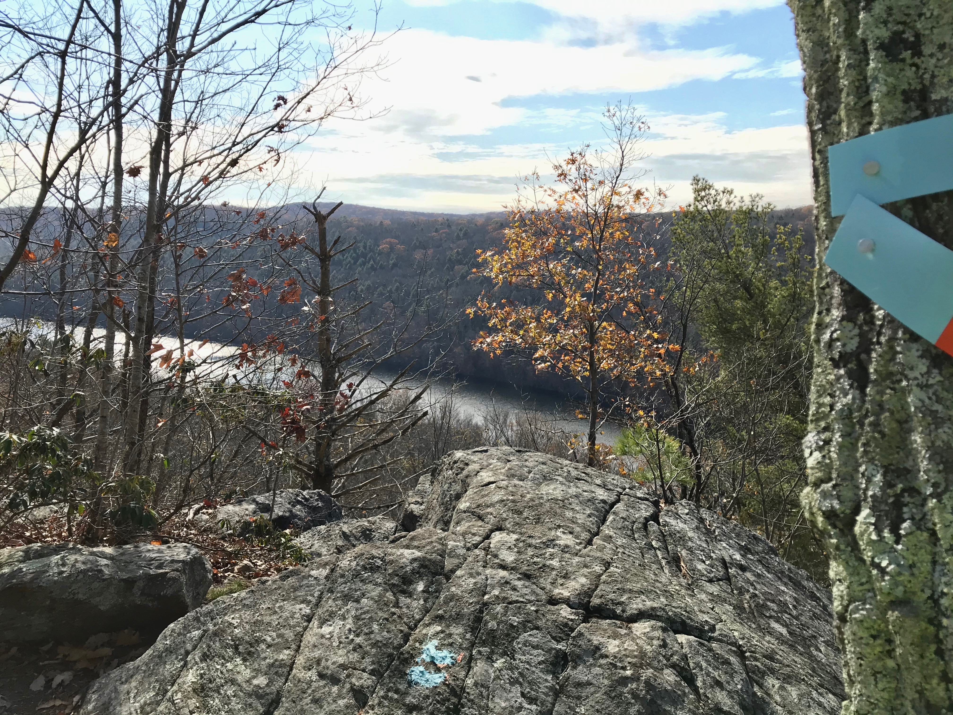 View from scenic overloop of the Housatonic River's Lake Zoar (along the Miller Trail in Kettletown State Park).